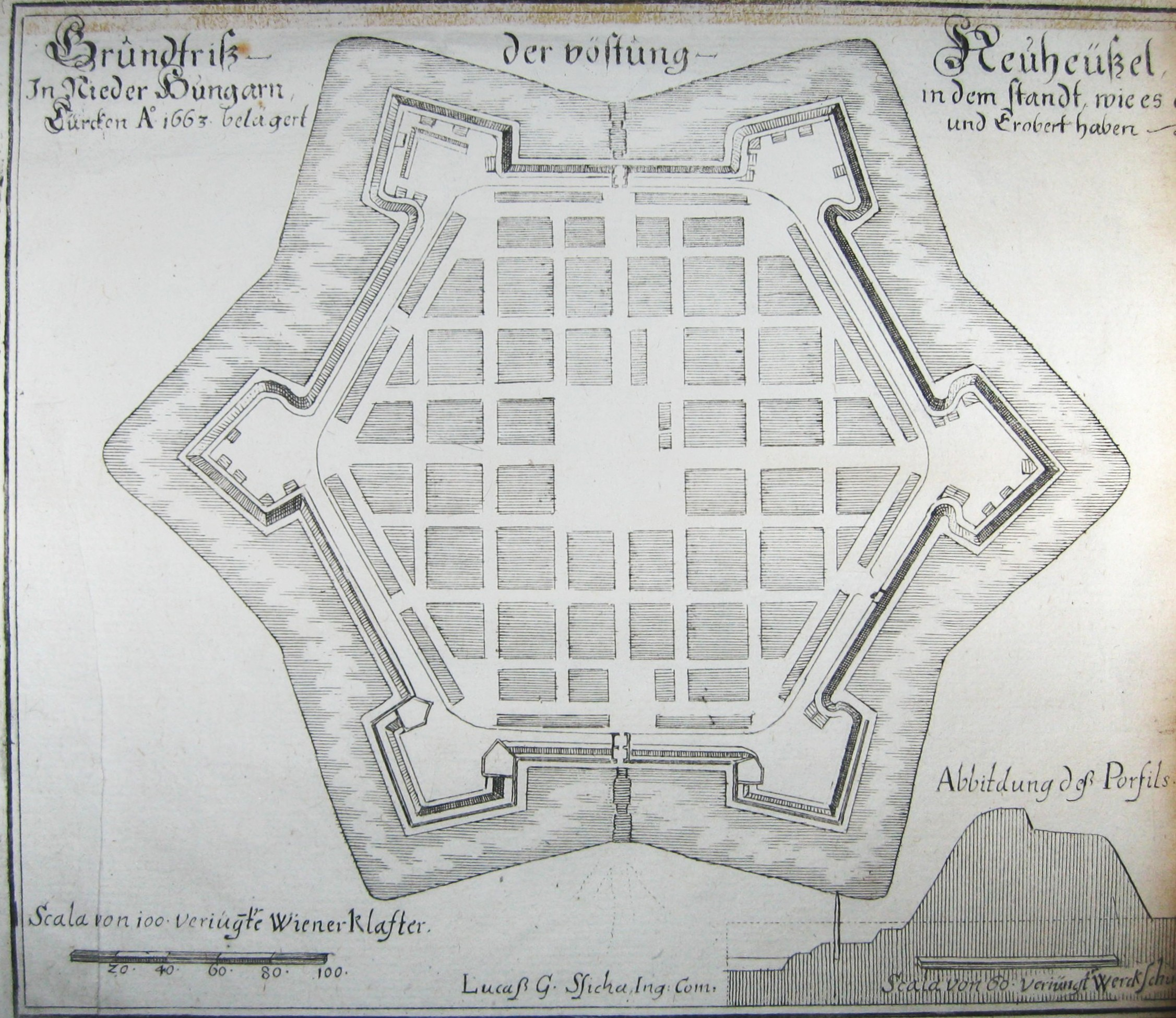 Plan of fort in Neuhäusel (Nové Zámky, Érsekújvár, about 1680))